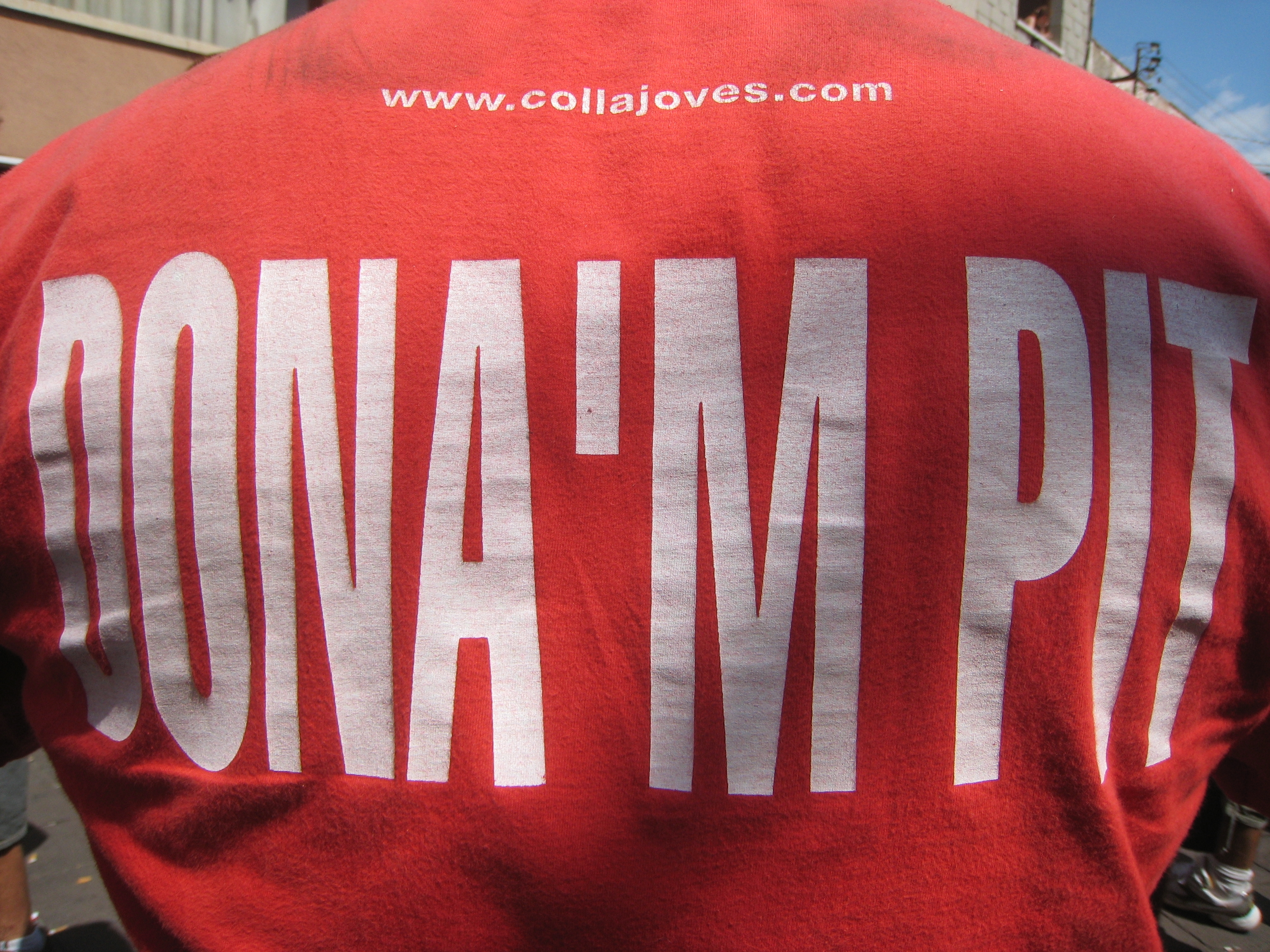 Give me chest!